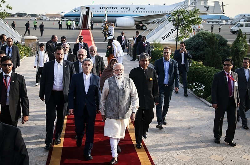 Indian Prime Minister Narendra Modi in Iran